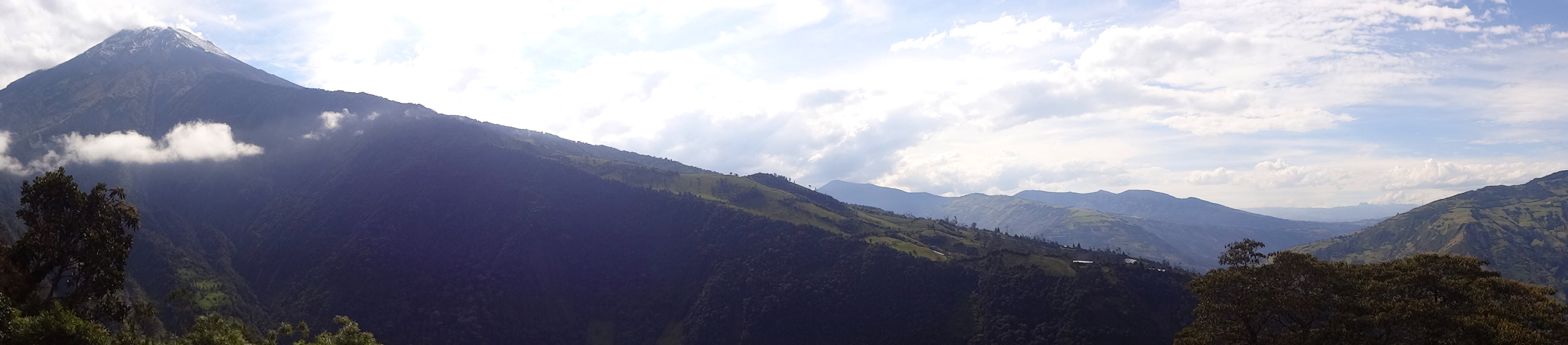 Panorama of Tungurahua volcano, Ecuador, from Baños, one week before the December 2012 eruptions